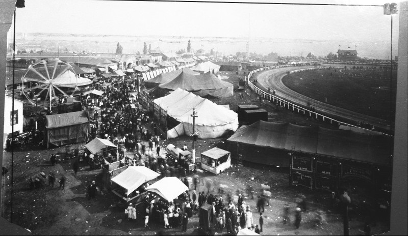 Parc de l'Exposition à Trois-Rivières, vers 1920.